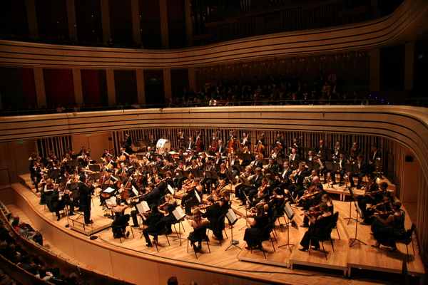 Dohnányi Ernő Symphony Orchestra Budafok